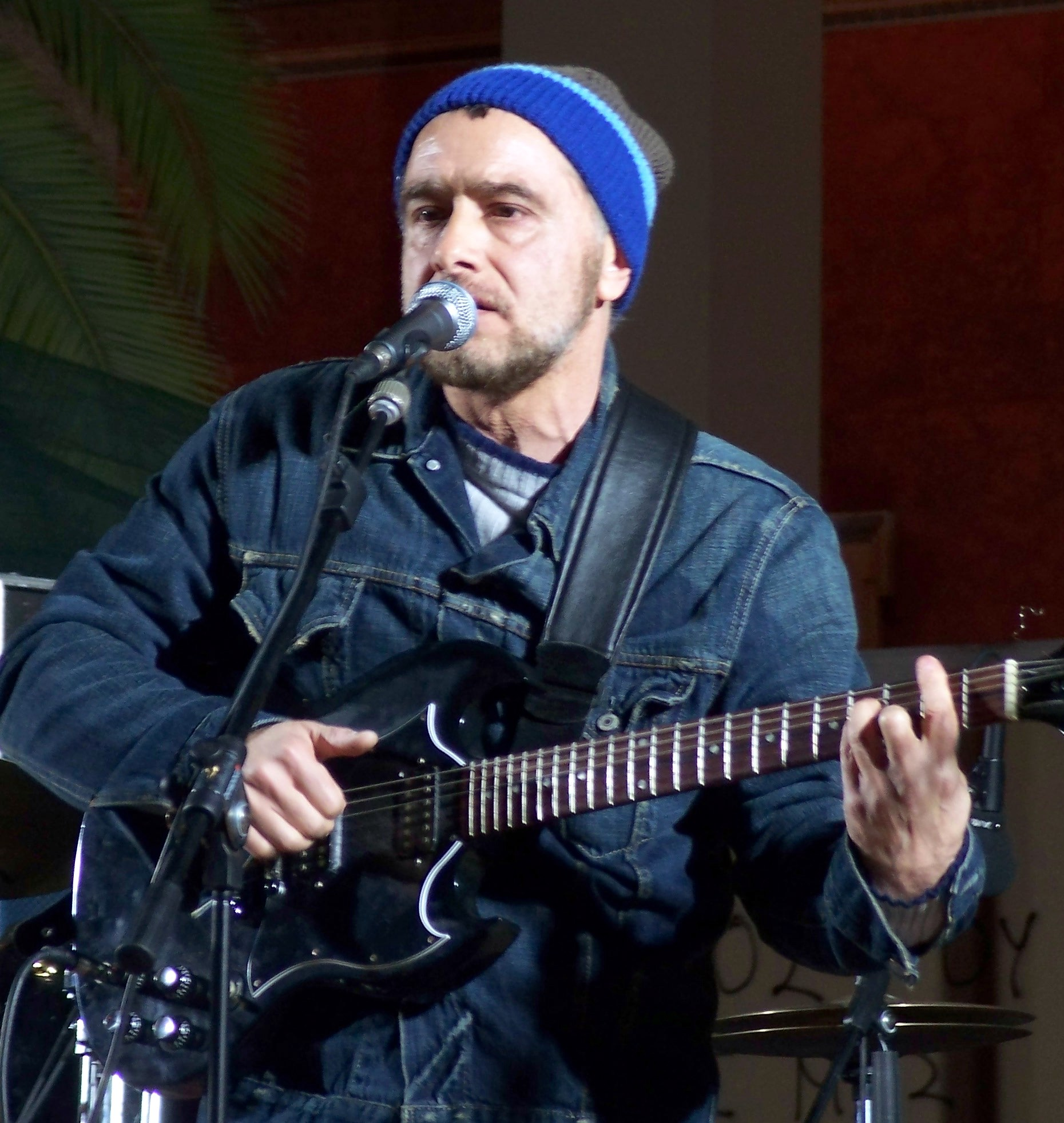 Greek electronic music composer Kbhta.